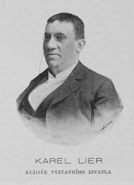 Portrait of Karel Lier (1845-1909), Czech actor and director